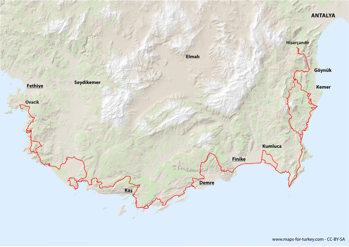 This is a overview of the Lycian Way